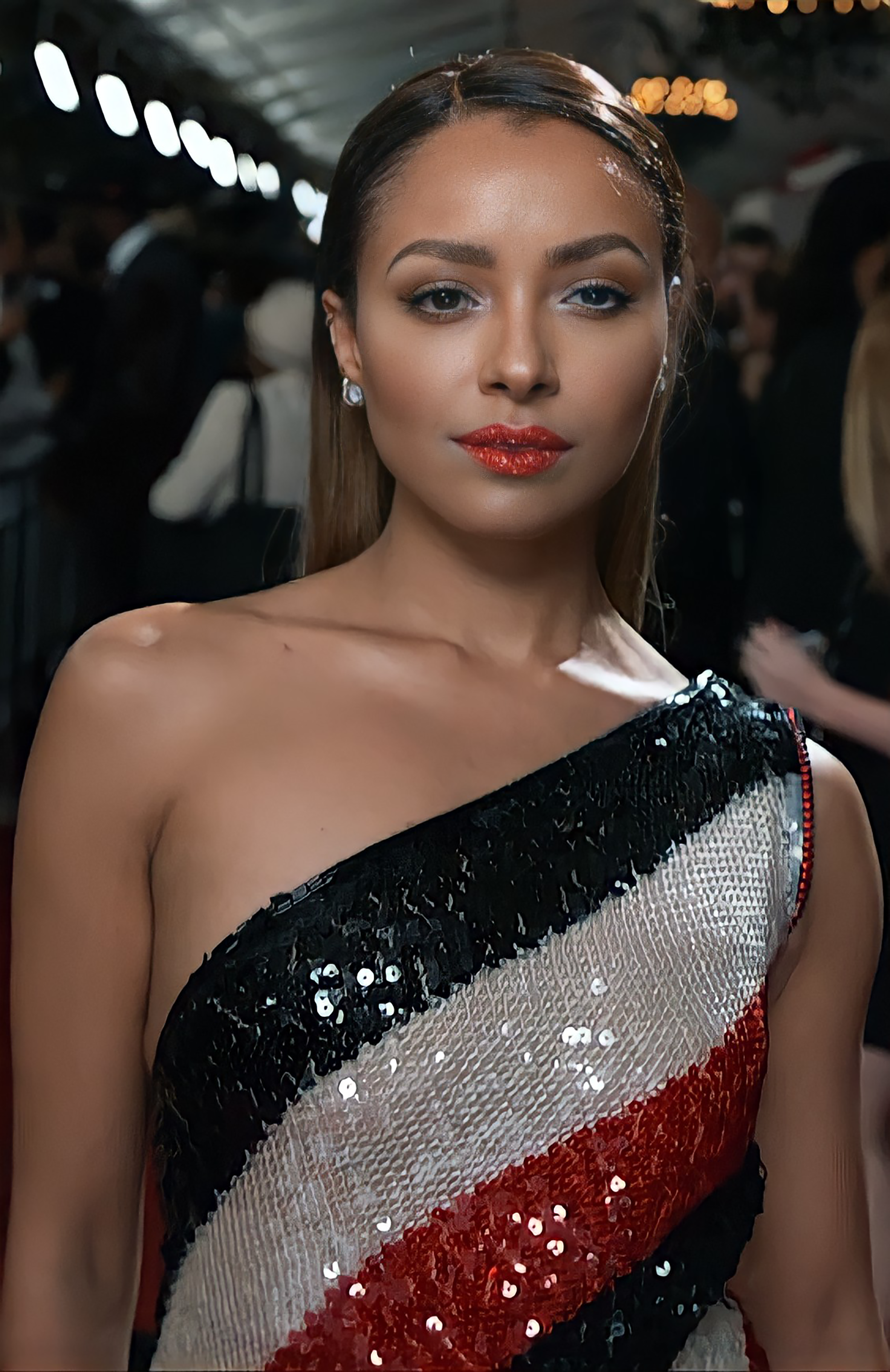 Kat Graham at 2017 Grammy Awards Red Carpet